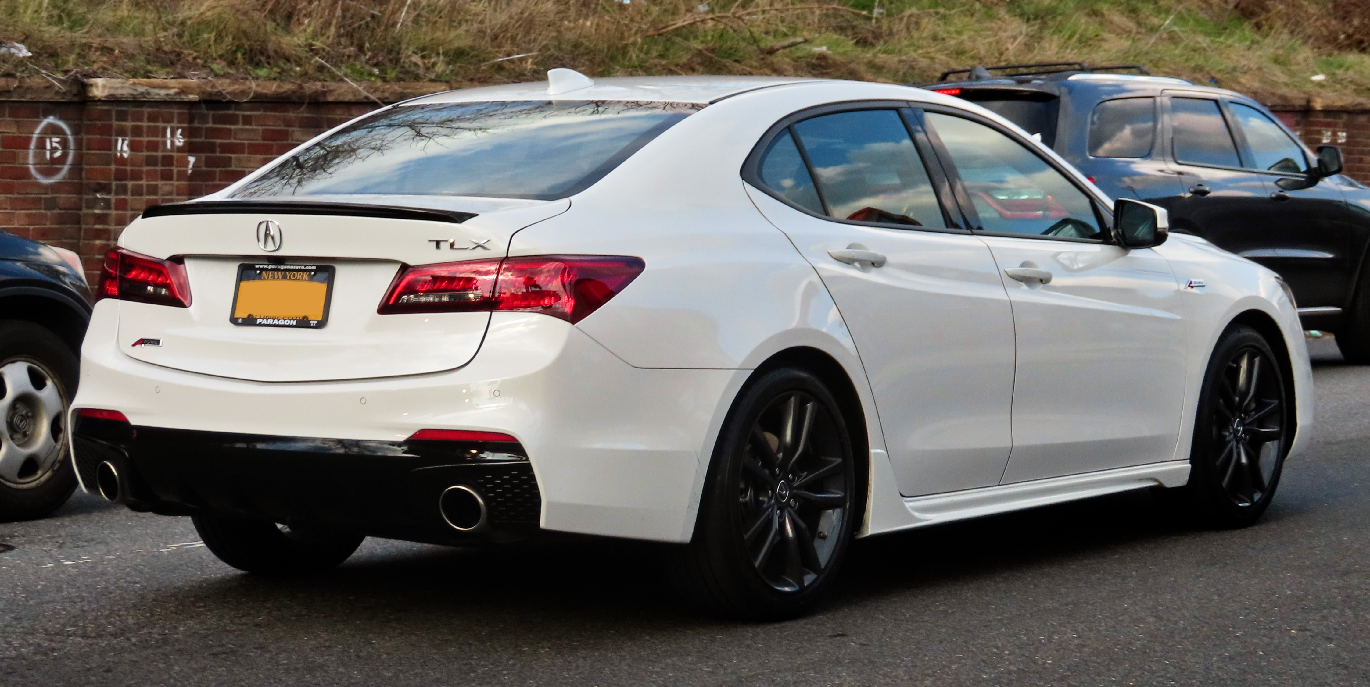 A 2020 Acura TLX A-Spec photographed in Fresh Meadows, Queens, New York, USA